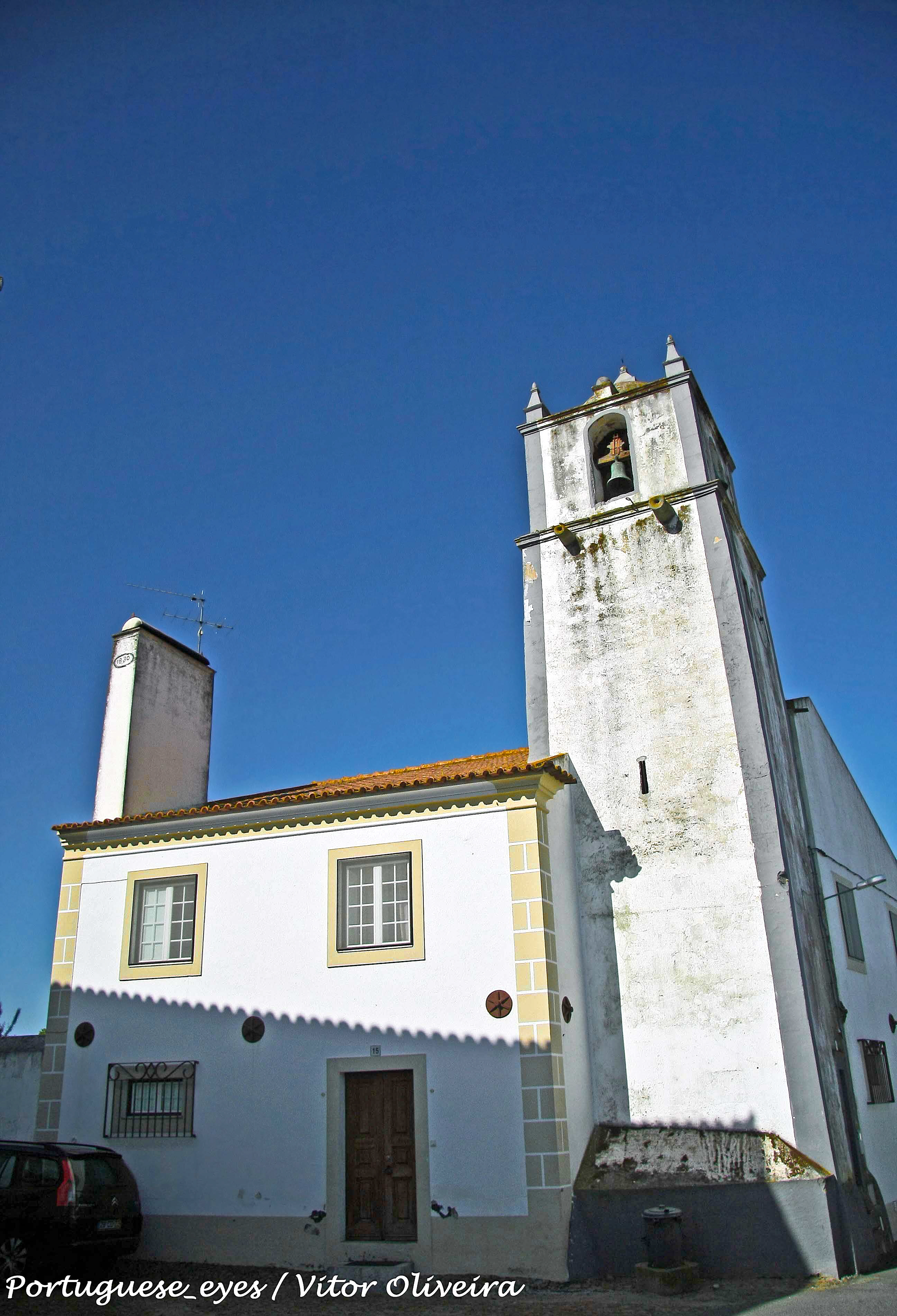 See where this picture was taken. [?]